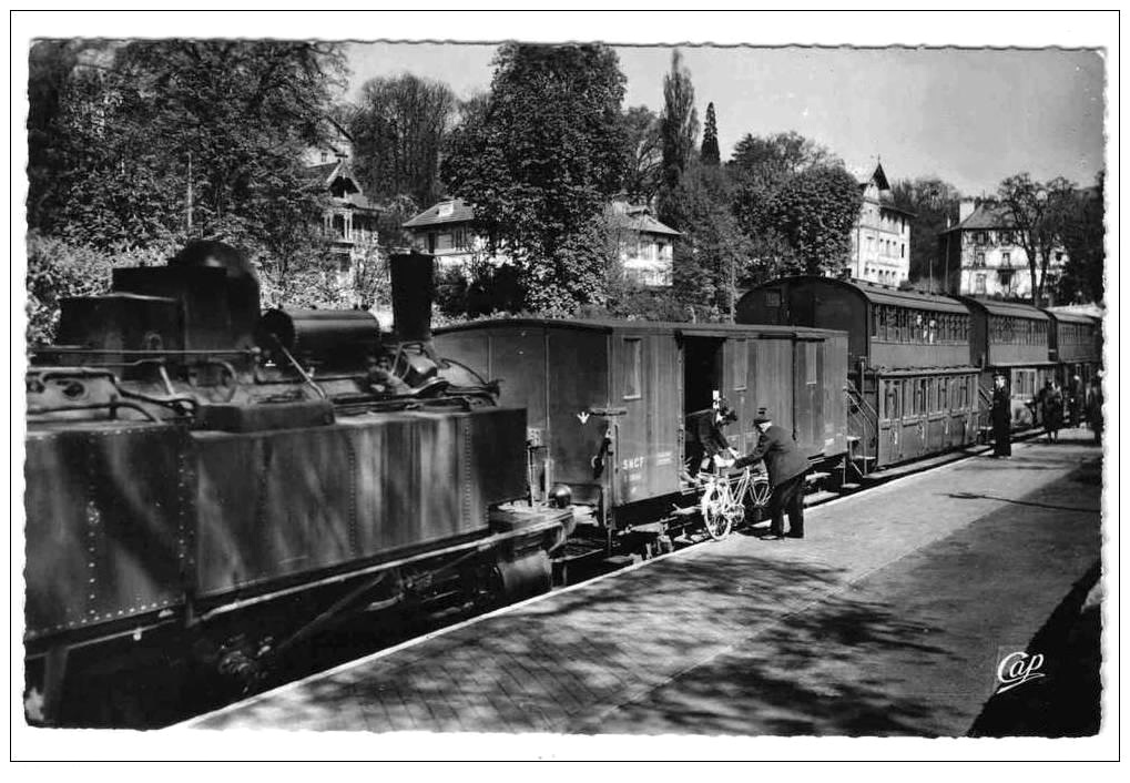 Loading of a bicycle in the Refoulon train.